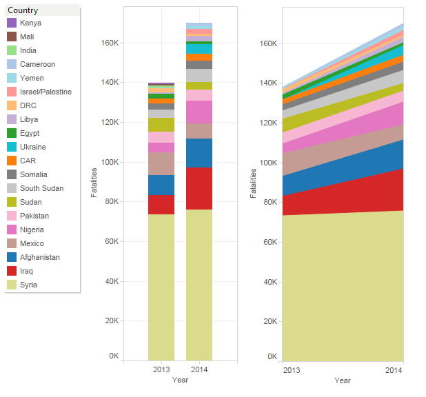 Conflict-related fatalities: 1) in the world’s deadliest countries in 2013 and 2014 (left); 2) in the world’s deadliest countries in 2014 and in the same countries in 2013 (right). Based on and ACLED. Data for Mexico based on [1], [2], [3]